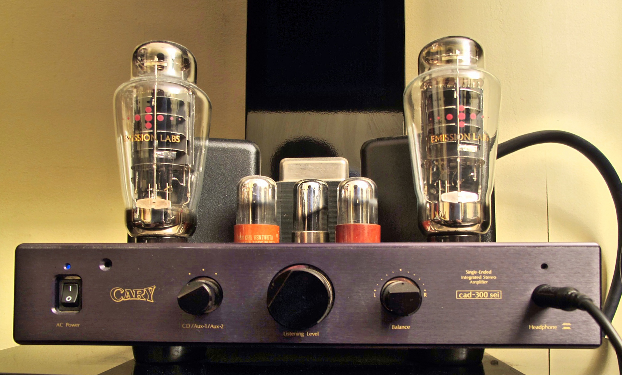 Cary Audio CAD-300SEI Integrated Amplifier from Flickr album "Headphones" by Chun Yip So from Brooklyn, USA